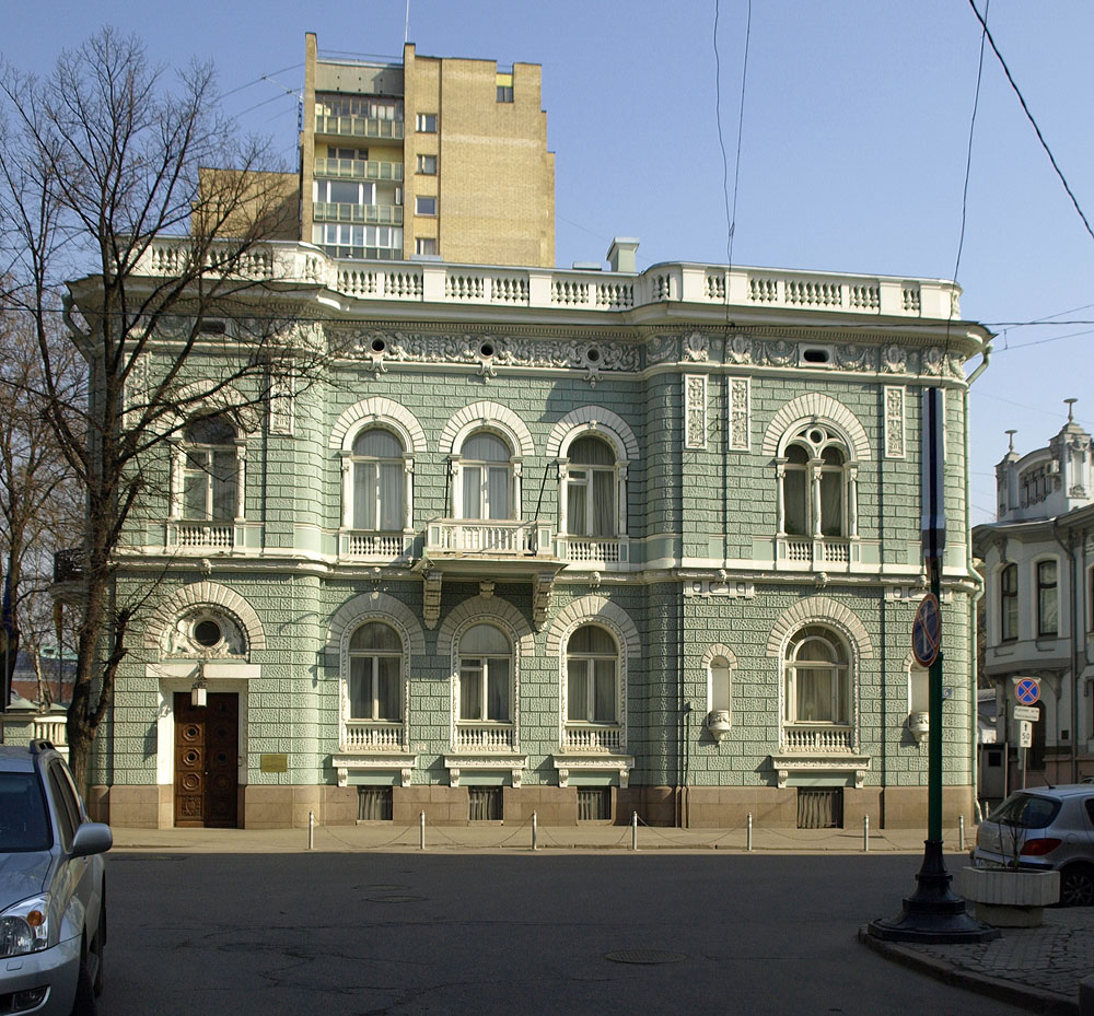 Schlossberg House, Moscow, 1910-1911. Architect: Adolph Seligson (1867-1919). In the far right is Mindovsky House (embassy of New Zealand) by Lev Kekushev (see Image:Kekushev Povarskaya 44.jpg). Present-day official residence of the German ambassador (the embassy itself is located in remote south-western part of the city).